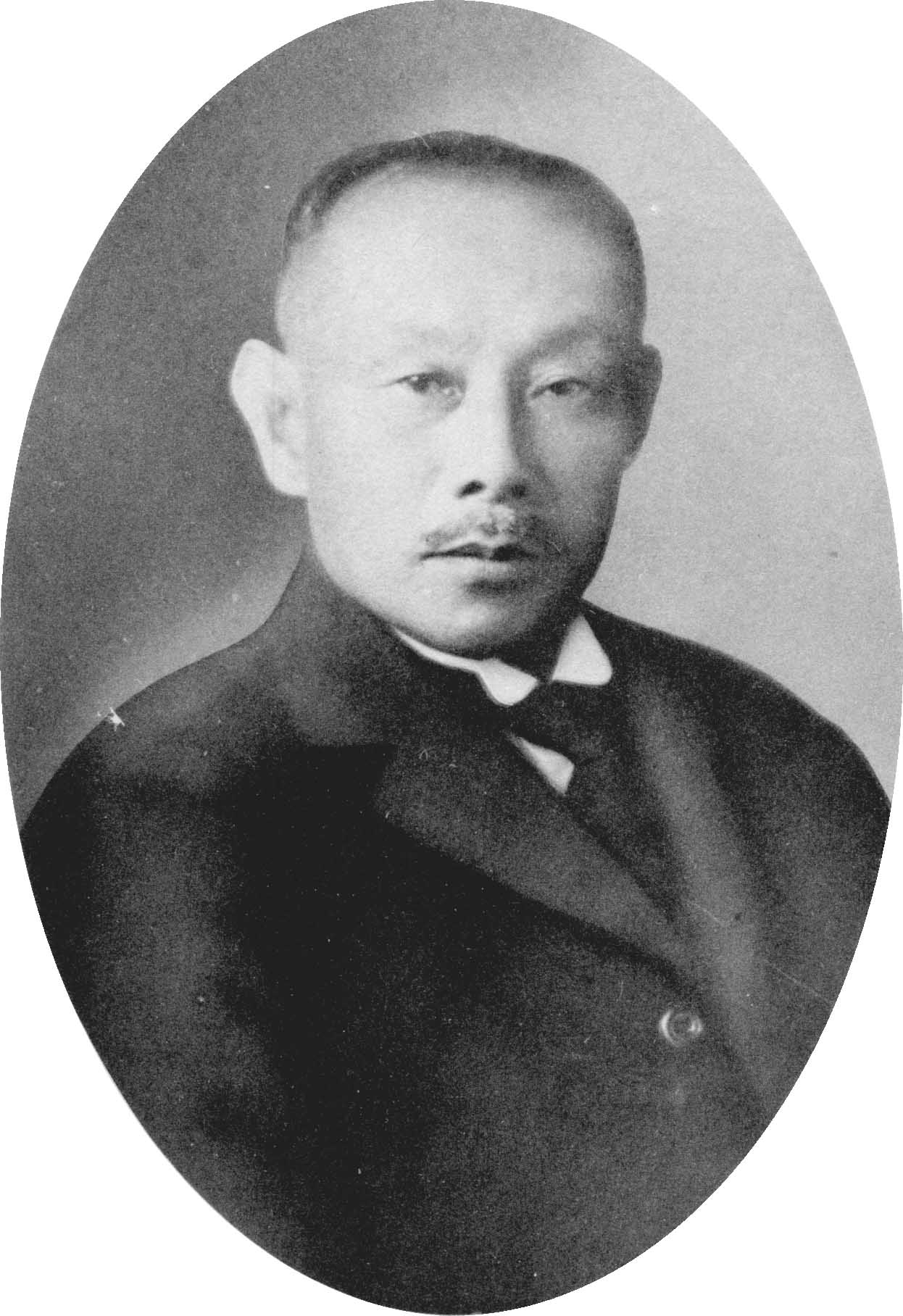 Seiji Nakamura, Dean of the Faculty of Science at Tokyo Imperial University.